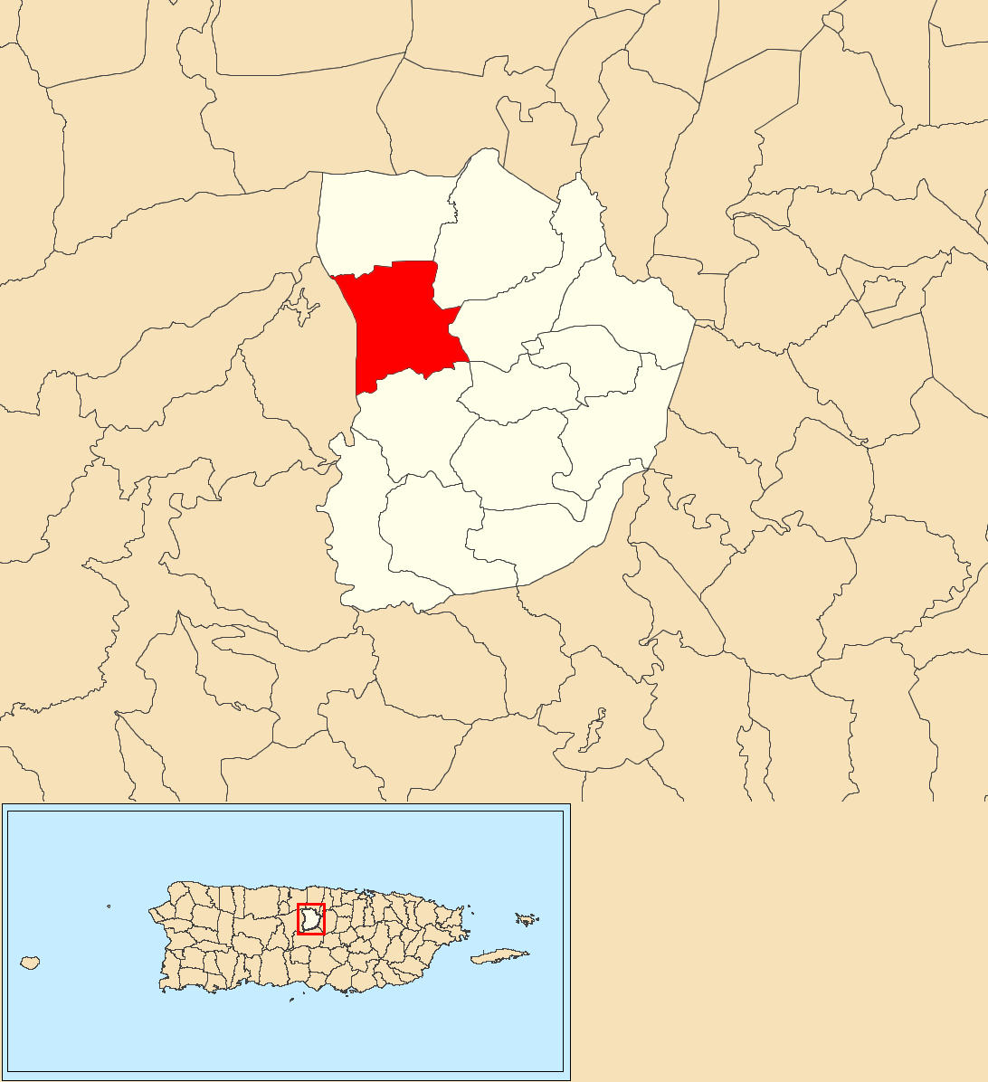 Torrecillas, Morovis, Puerto Rico locator map